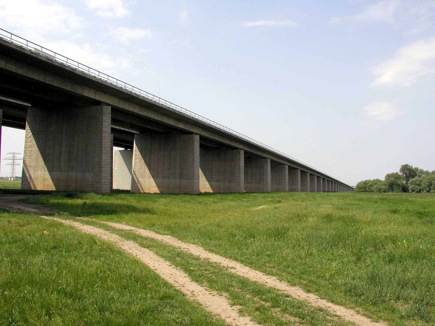 motorway bridge across the Elbe at Hohenwarthe